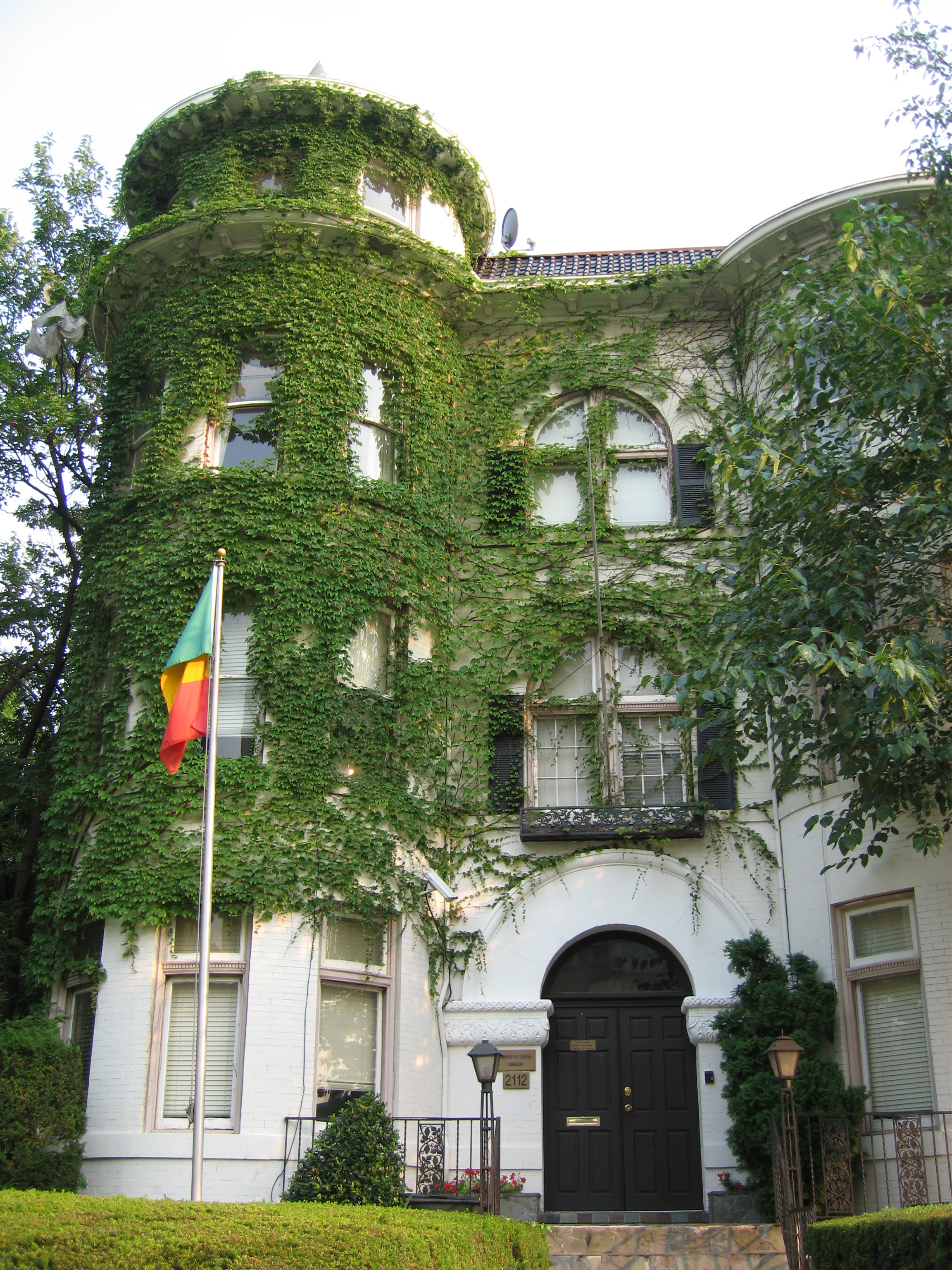 Embassy of Senegal of the United States